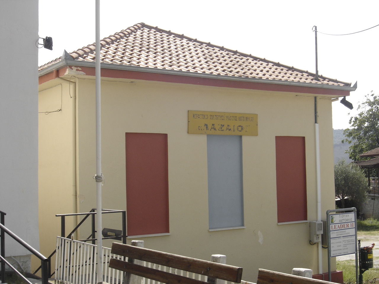 The Cultural Association of Kato Milia, called "I Lazei".